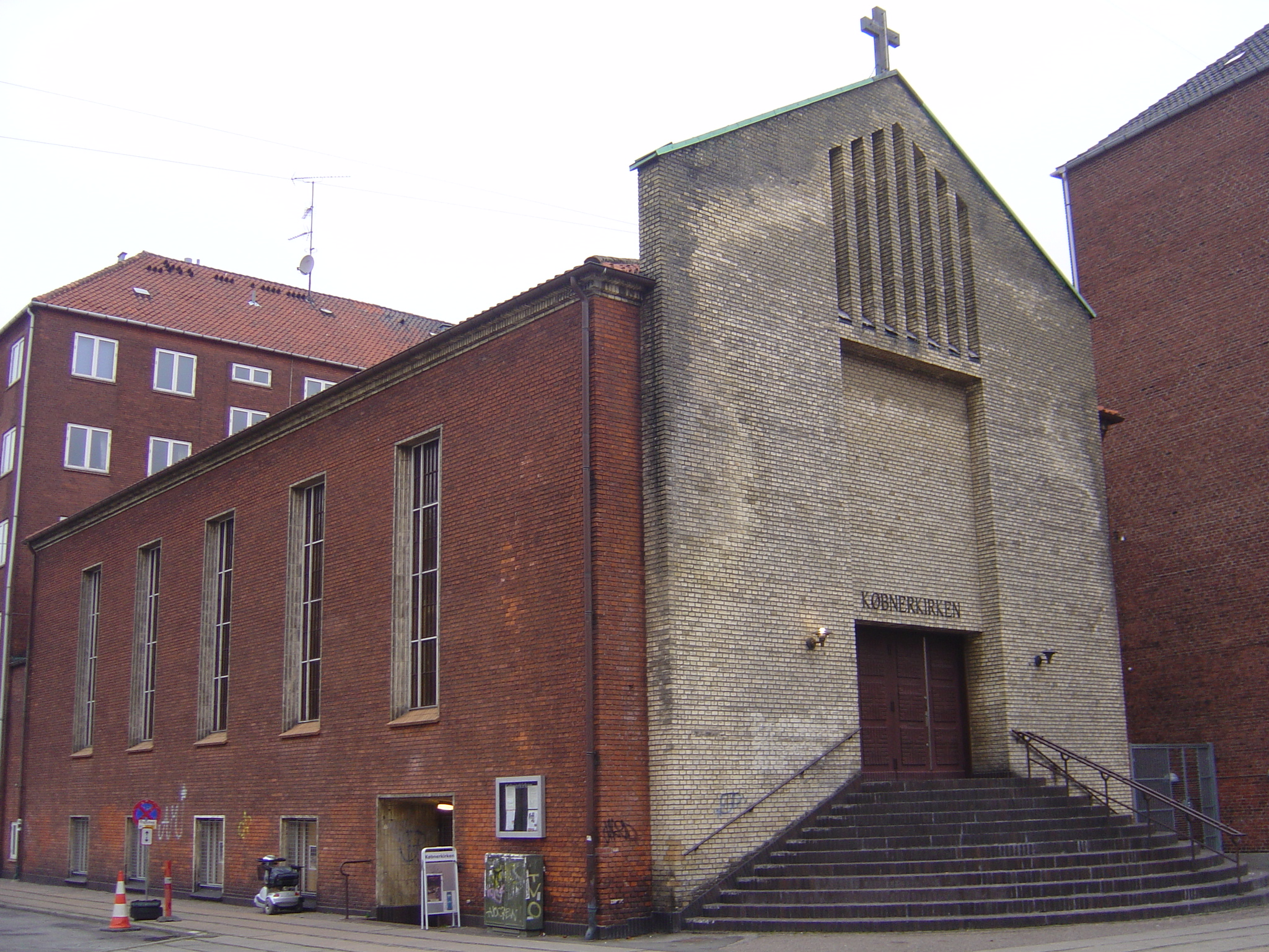 Købnerkirken is a Danish Baptist Church located on Amager, Copenhagen. Seen from Shetlandsgade.